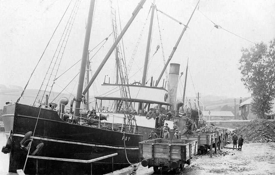 Coastal steamer Foy of Fowey unloading coal at Pentewan into Pentewan Railway. The coastal steamer Foy of Fowey (both names are atually pronounced the same) unloading coal at Pentewan around 1905. This steamer belonged to the small fleet of steamers operated by Toyne, Carter & Co. of Fowey, started in 1897 by Charles Toyne with the purchase of the used vessel Stockton, built in 1856. It was owned and financed by a separate company set up by Toyne, the Fowey Steam Ship Co. Ltd. Here, the coal is being unloaded by hand using baskets into wagons on the quayside. The presence of so many of the village lads, many of whom are on Foy’s bridge, suggests that this visit by a steam coaster was not a regular occurrence.